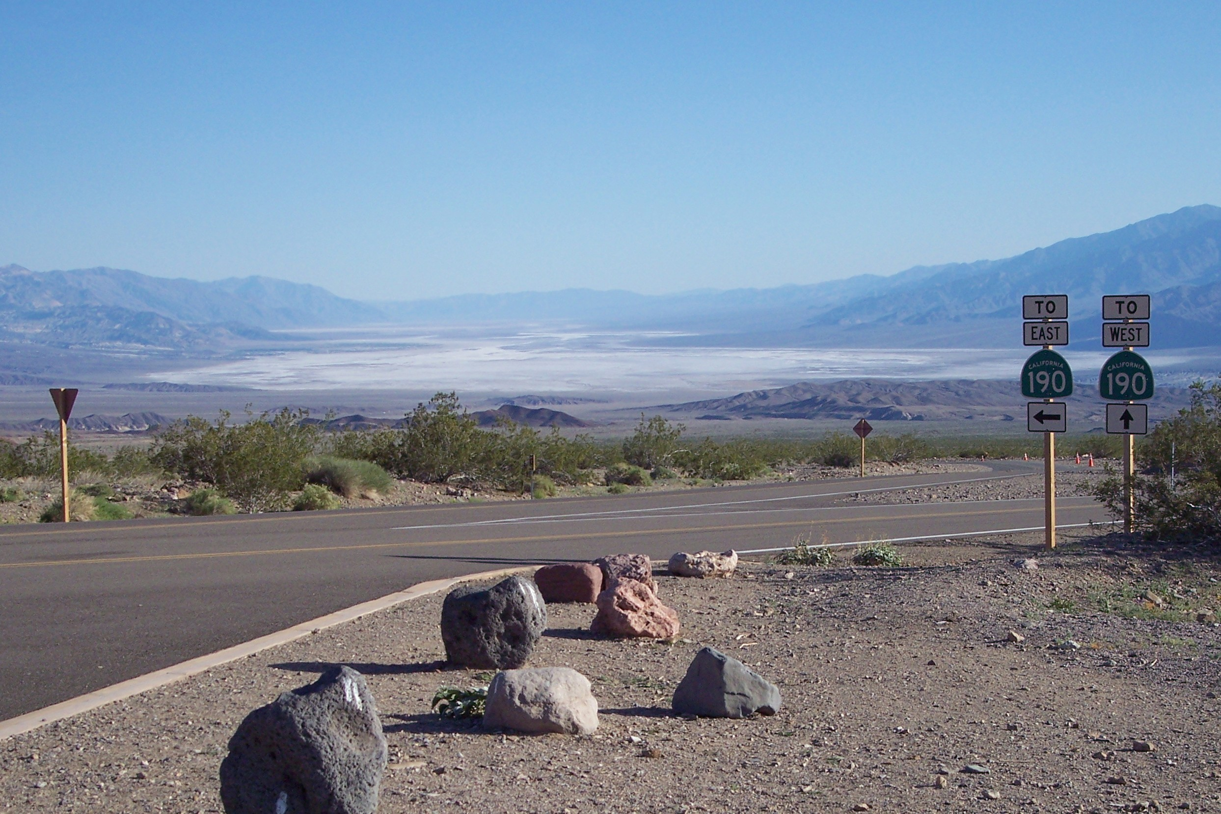 View of Death Valley from Hells Gate, in Death Valley National Park, at the intersection of Daylight Pass Road and Beatty Road, both giving access to California SR 190.